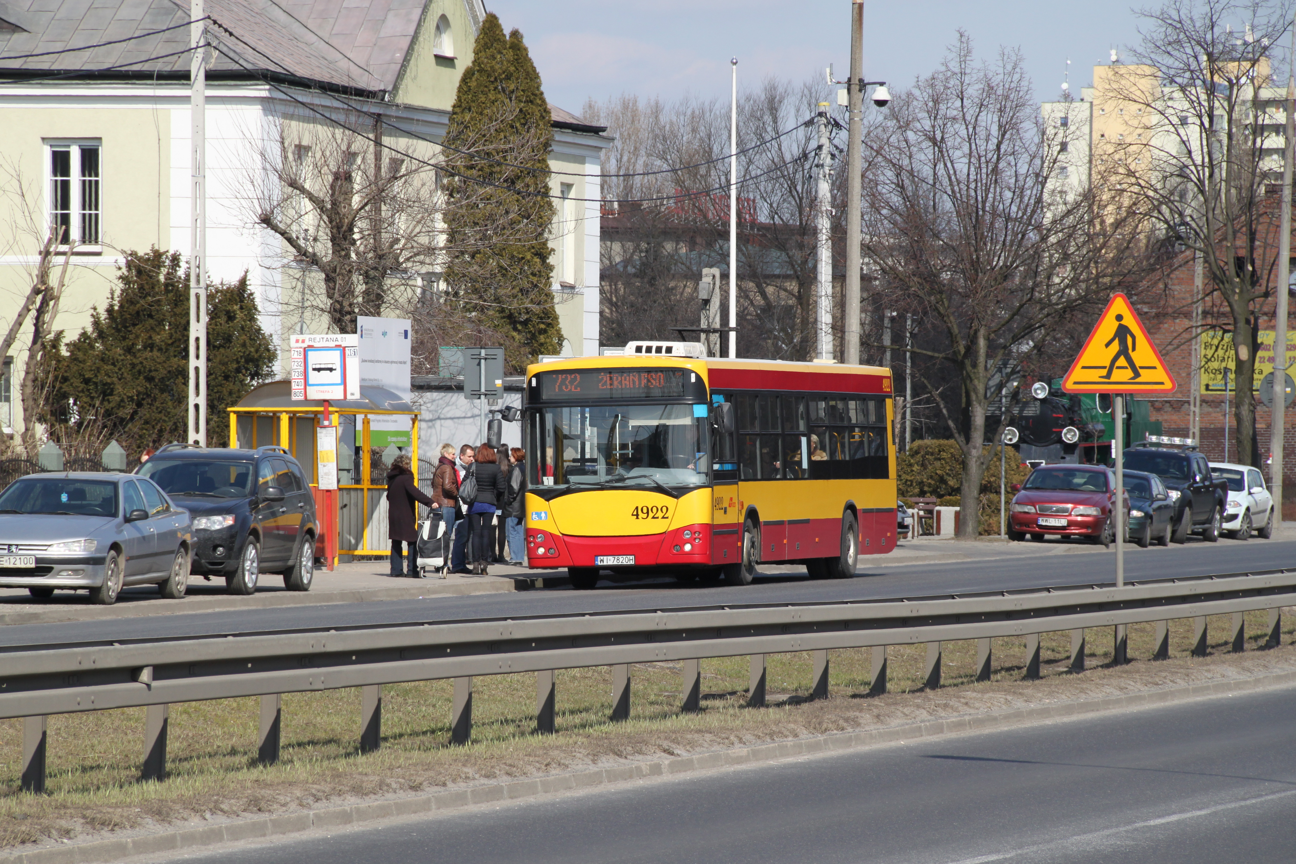 Jelcz M121I4 bus (#4922, MZA Warszawa operator, built in 2008) in Marki, Poland.